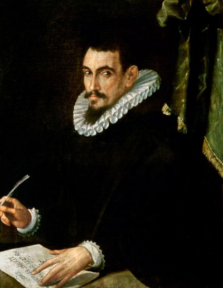 Portrait of a Scholar (Giacomo Castelvetro)